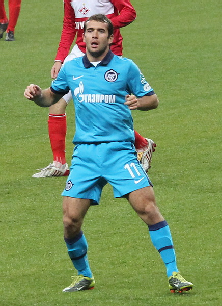 Aleksandr Kerzhakov